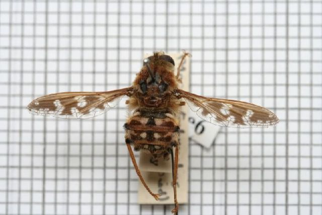 Moegistorhynchus longirostris